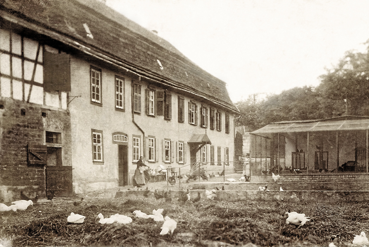 Manor Gut Stoedten near Straußfurt in Thuringia (1900)